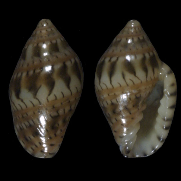 Species: Marginella gemmula Bavay in Dautzenberg, 1912 Specimen: Luis Ferreira collection data: by scuba at 3m, on rocks. Saco Mar, Namibe. Angola April 1994 L 6,7mm